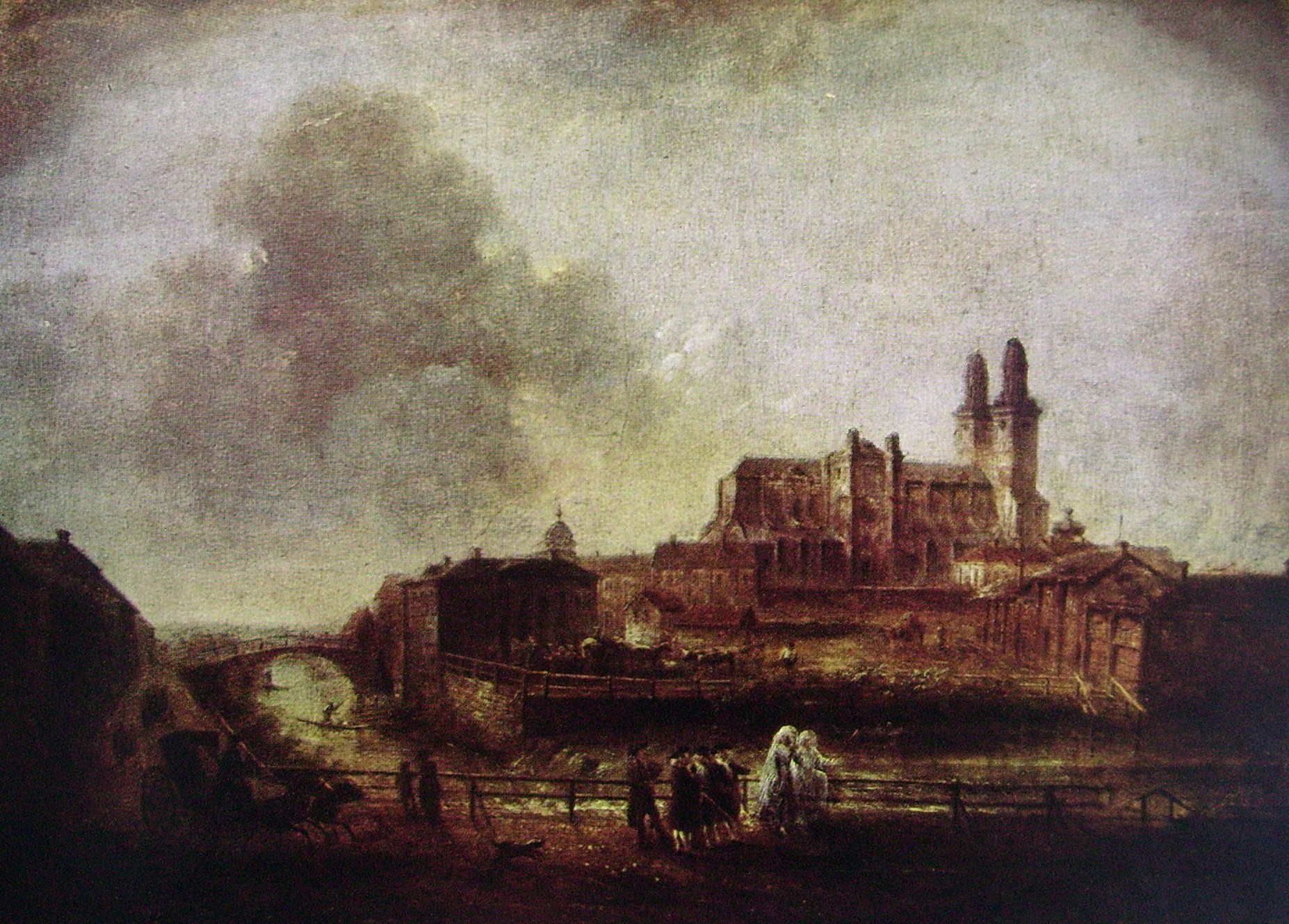 Picture of painting Utsikt av Uppsala med domkyrka